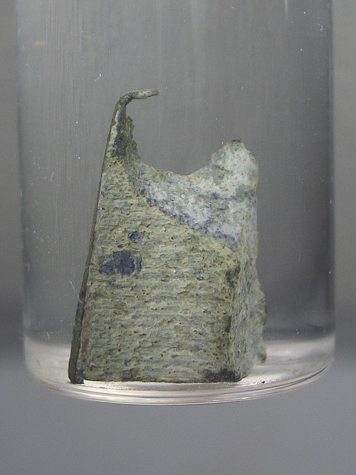 Europium metal with oxide coating